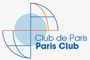 Paris Club Logo